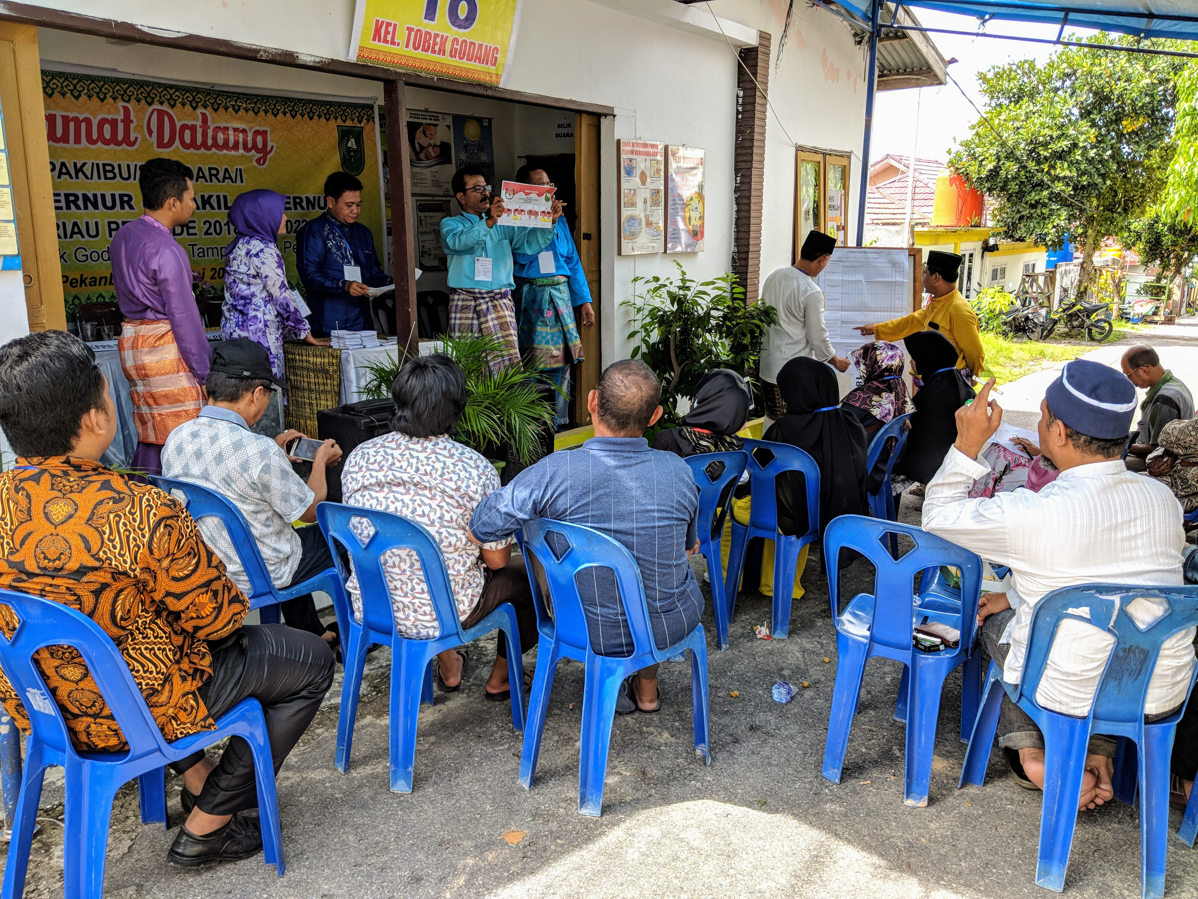 Vote counting at a polling station in Tobek Godang, Pekanbaru, Riau during the for the Indonesian local elections, 2018